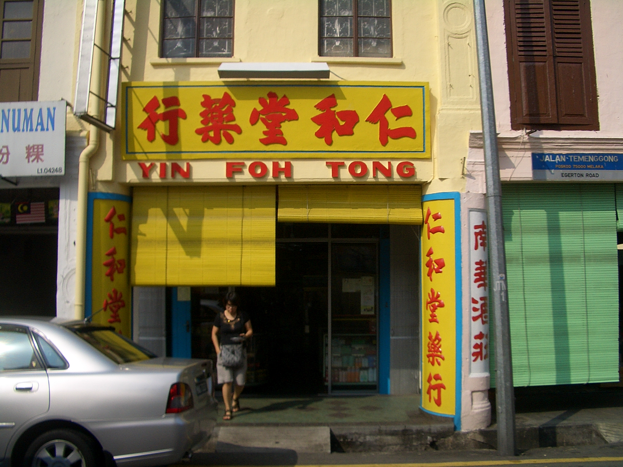 A pharmacy on one of Melaka's business streets (not far from Bukit Cina). The sign, .仁和堂药行 (which would be Ren He Tang Yaohang in Pinyin) is transcribed as Yin Foh Tong, in accordance with the locally used dialect